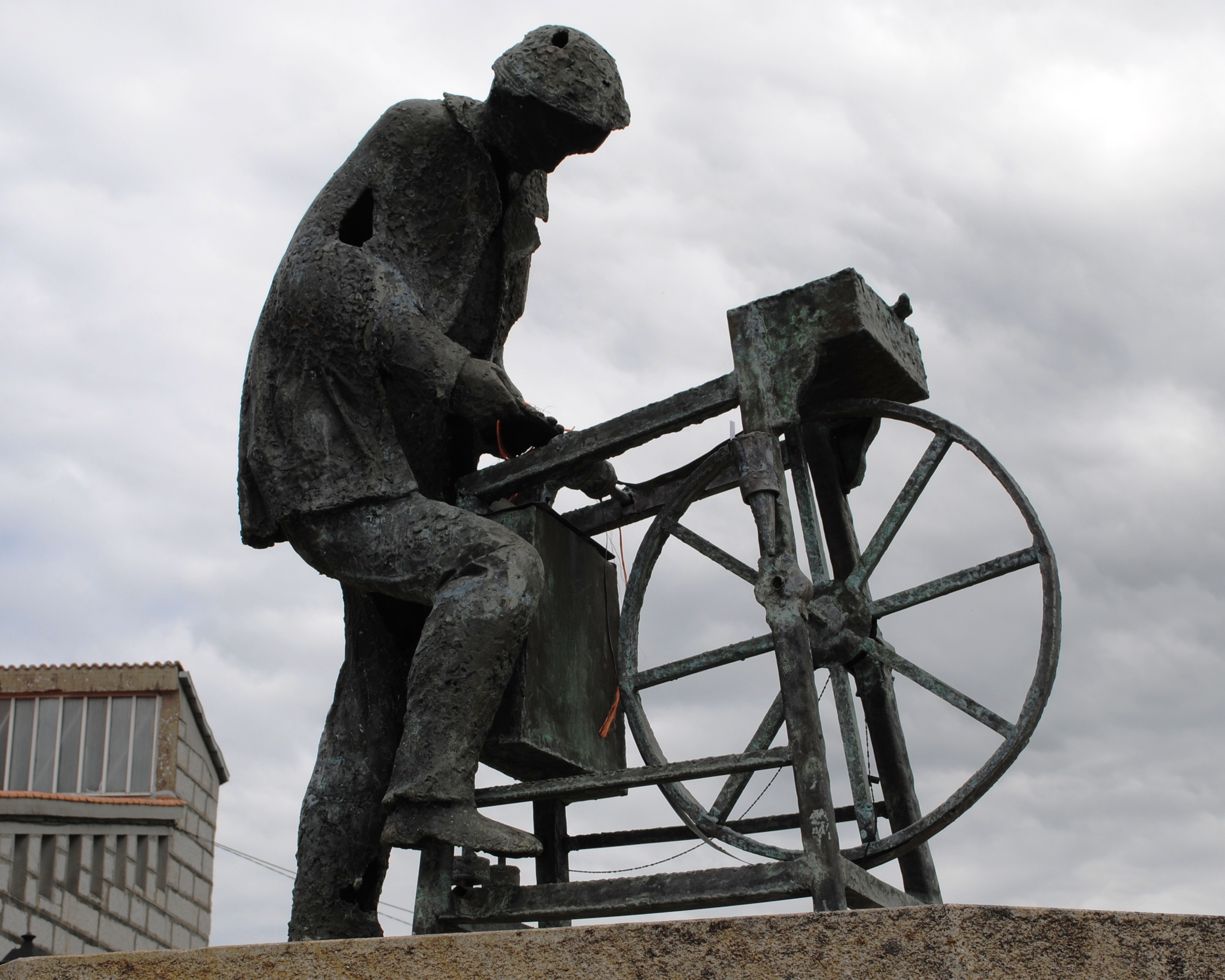 See title.